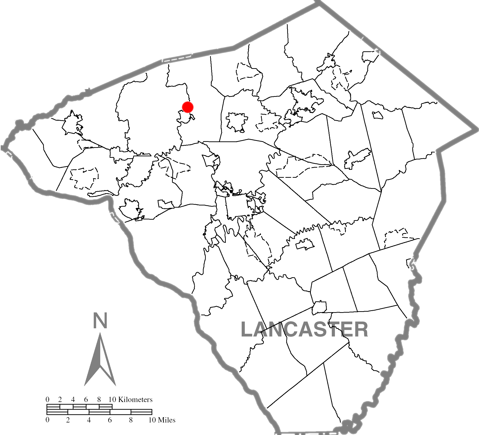 Lancaster County dot map of the Shearer's Covered Bridge.